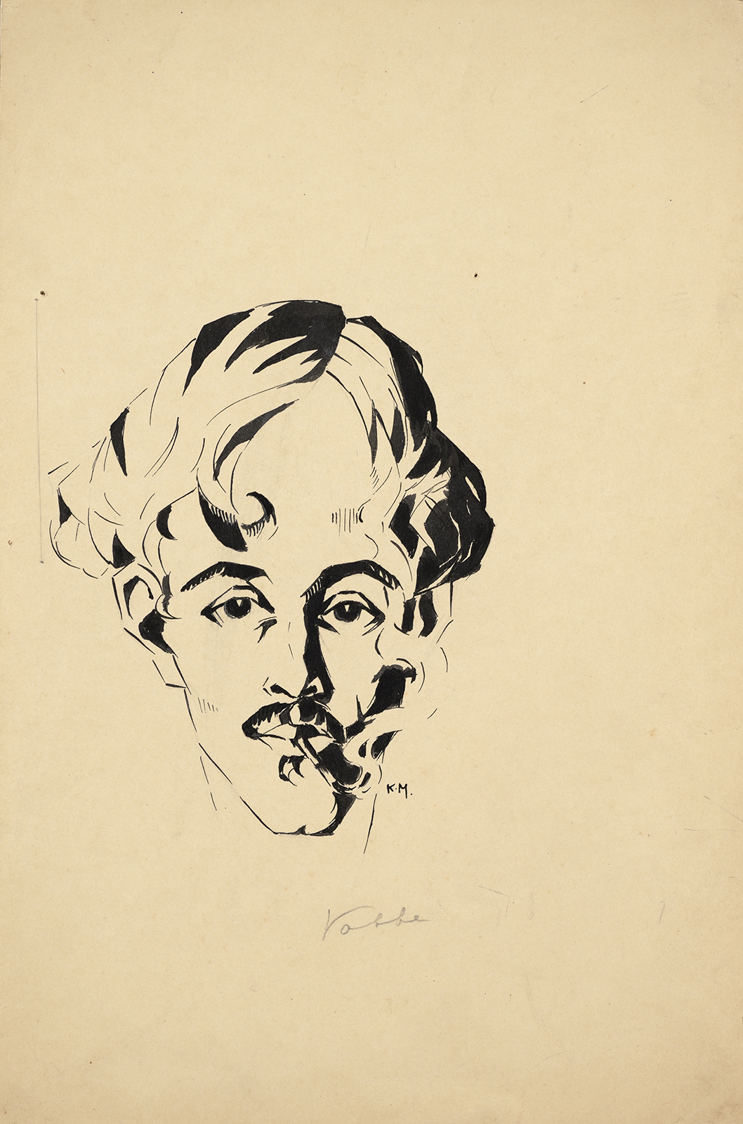 Konrad Mägi. Portrait of Ado Vabbe. 1918. Indian ink on paper. EKM j 53593 G 29668.